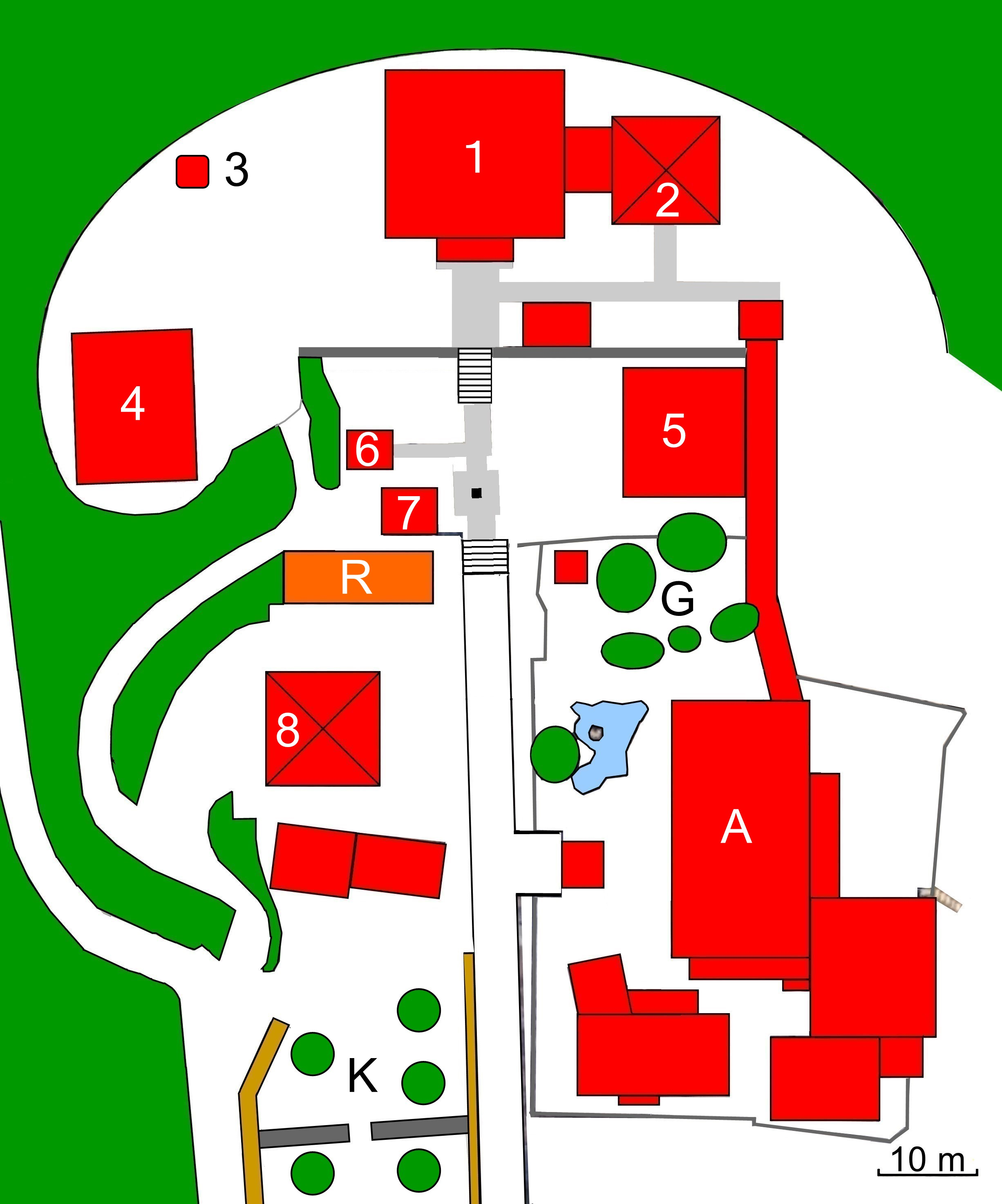 Layout of Mangan-ji (Kawanishi) , Hyôgo prefecture, Japan